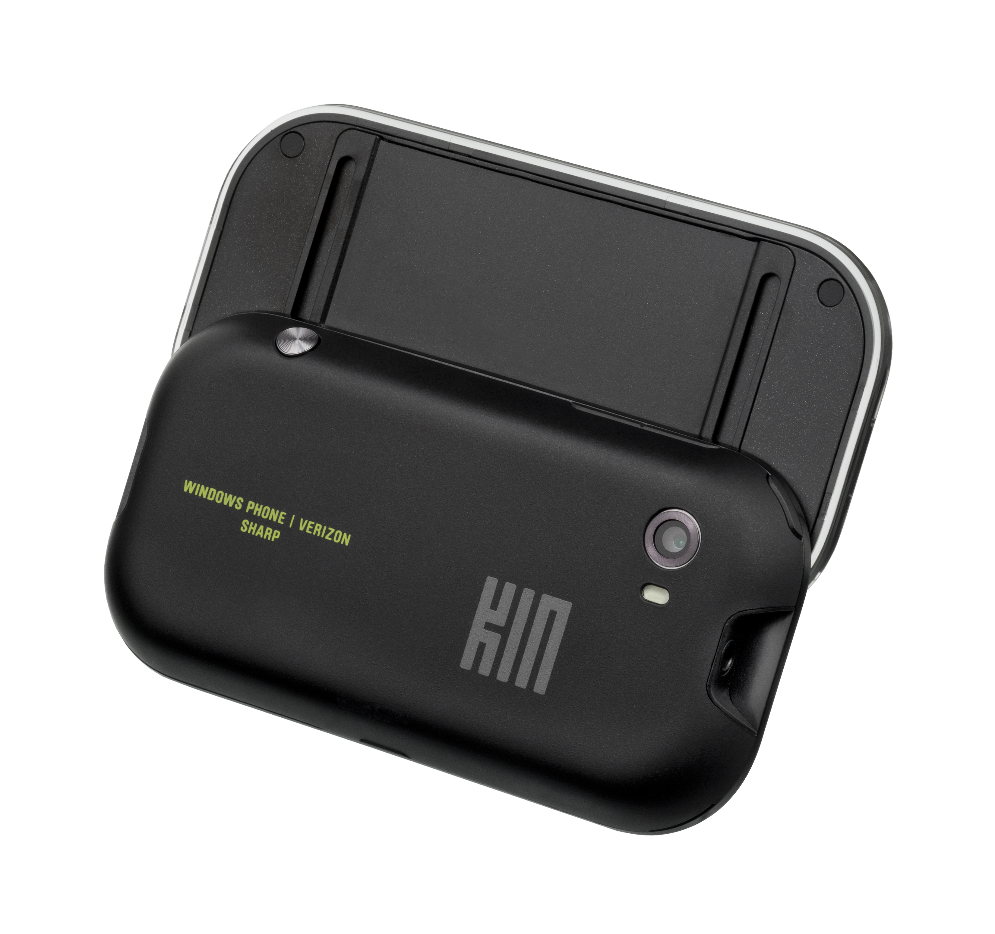 The back of a Microsoft Kin Two (shown open), a 2010 cellphone that was manufactured by Sharp and sold through Verizon Wireless. The phone used a special social-media-based OS and is notable for being a critical and commercial failure, being discontinued less than two months after it launched.